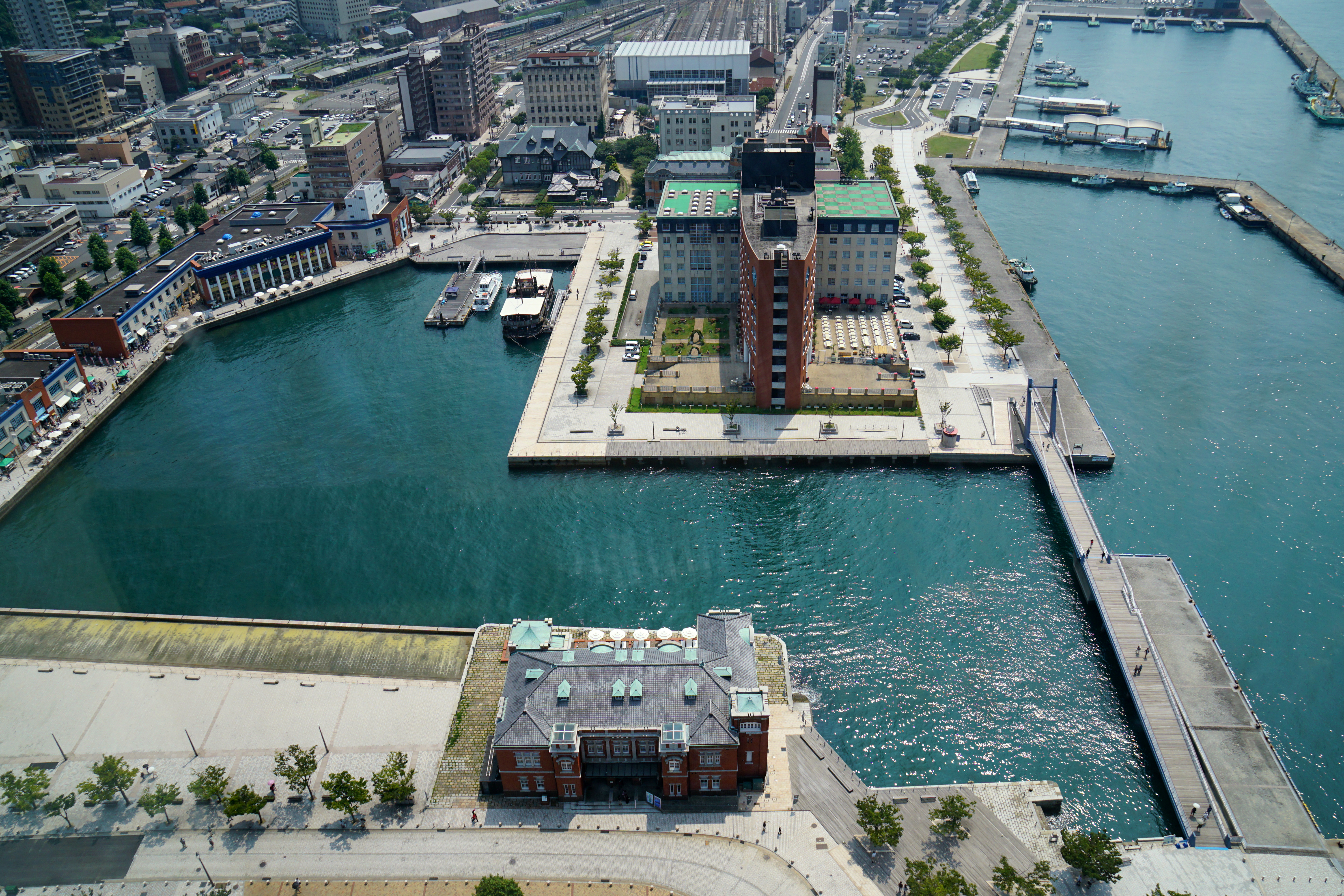 Mojiko Retro in Kitakyushu, Fukuoka prefecture, Japan.